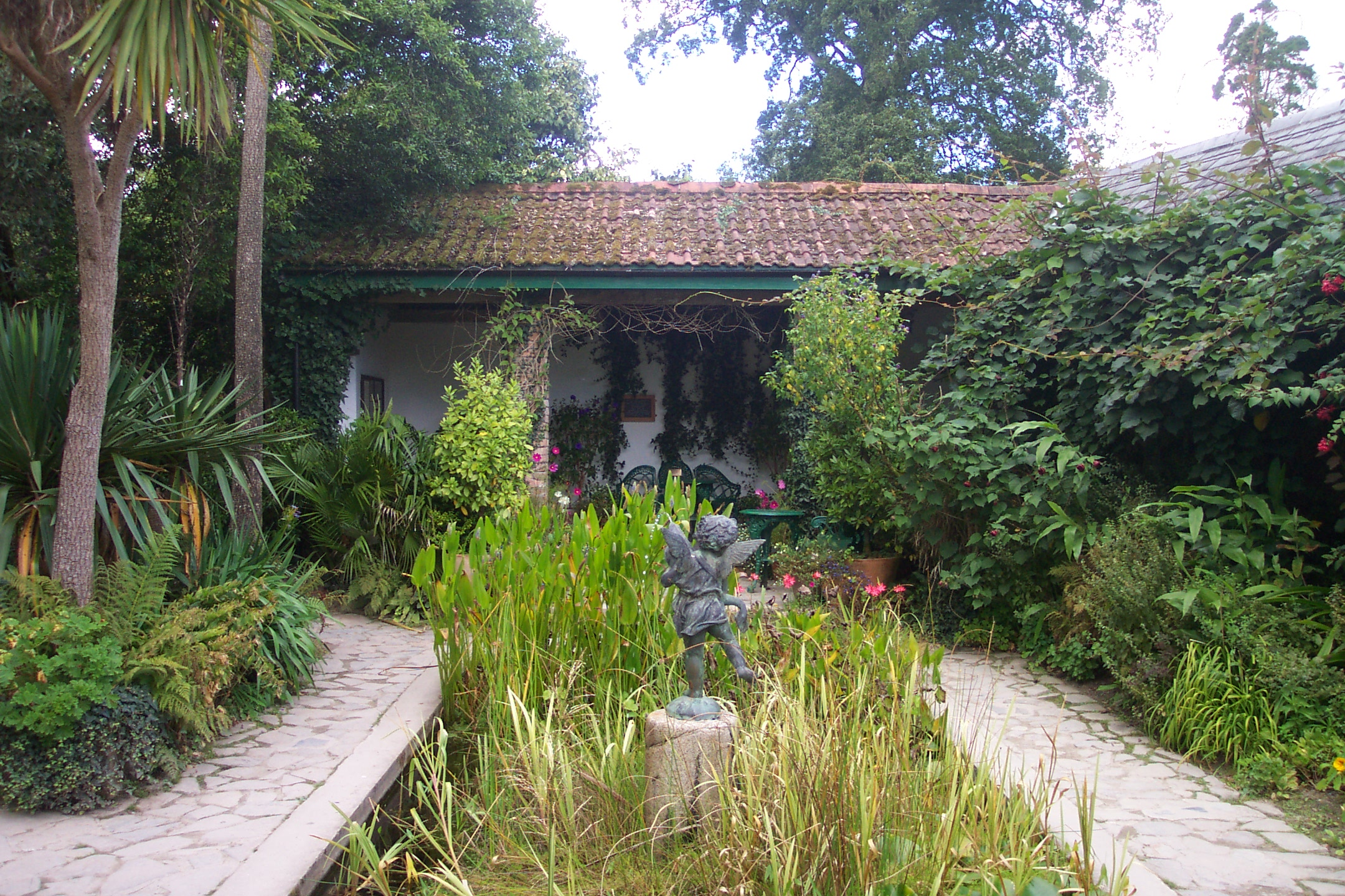 The Italian Garden at the Lost Gardens of Heligan. For more information see the Wikipedia article Lost Gardens of Heligan.